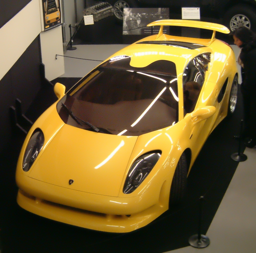 Bird's-eye view of the Lamborghini Calà (also known as Italdesign Calà).